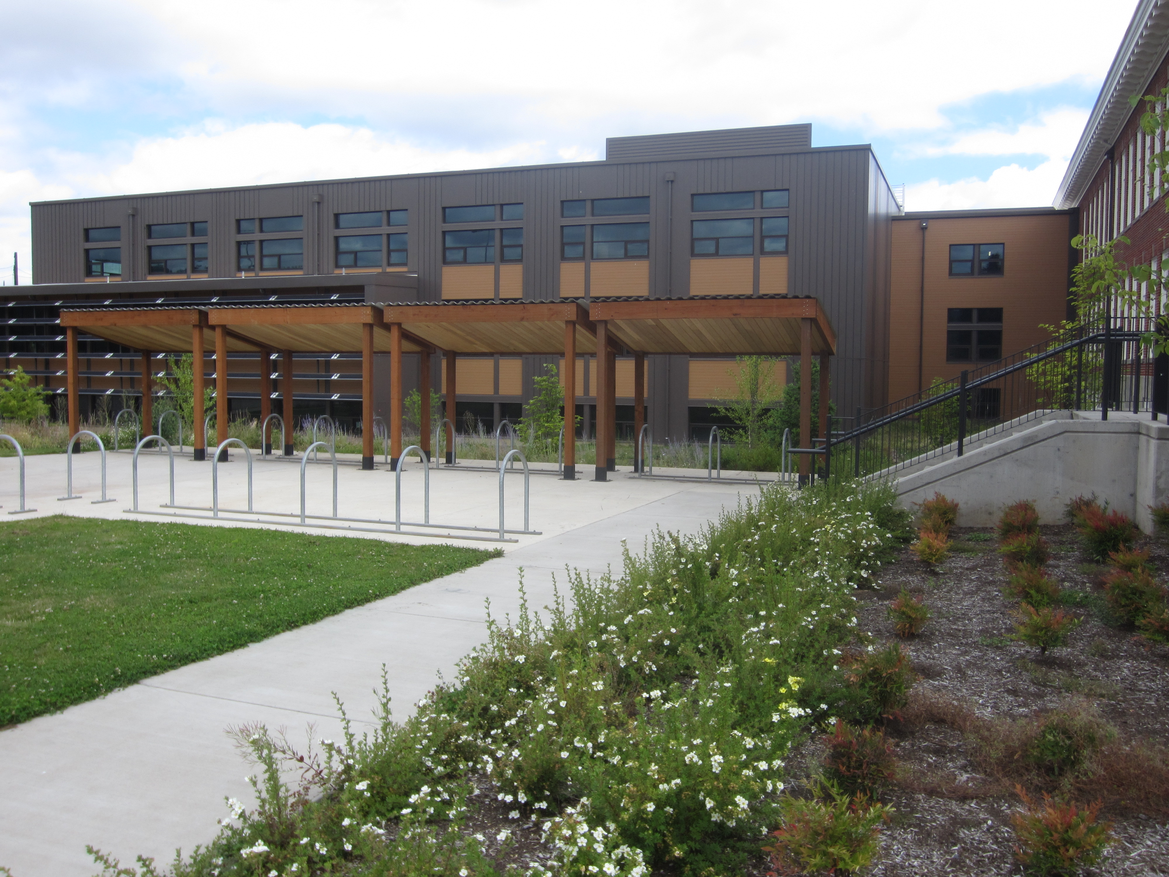 North Portland, Oregon (2019)